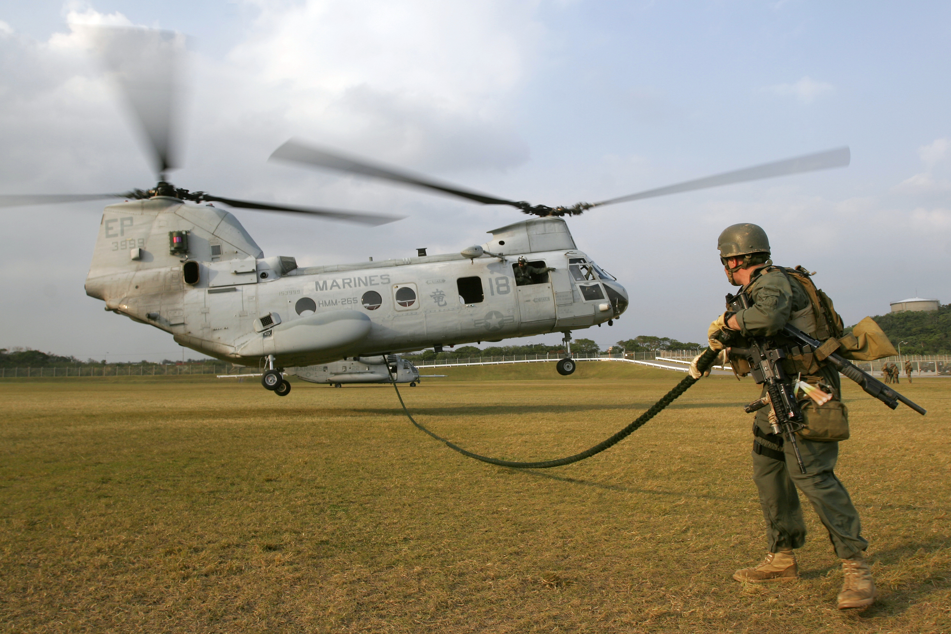 OKINAWA, Japan – A member of the 31st Marine Expeditionary Unit’s Maritime Strike Force secures a rope from a CH-46E Sea Knight helicopter during fast-rope drills aboard Camp Hansen, Jan. 31. The MSF members received several classes and practical application sessions designed to ensure the members merge into a cohesive whole. The helicopter support was provided by the MEU aviation combat element, Marine Medium Helicopter Squadron 265 (Reinforced). Photo ID: 20072724919 Submitting Unit: 31st MEU